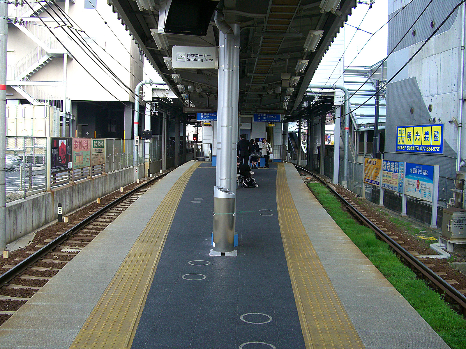 Platform at Keihan-Ishiyama Station on the Keihan Ishiyama Sakamoto Line